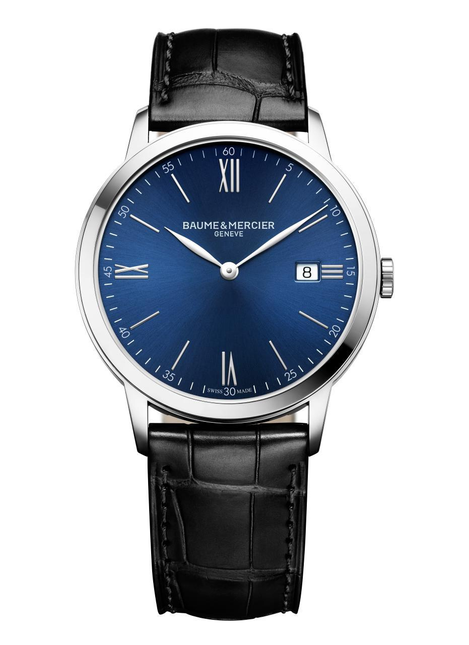 The Baume et Mercier Classima 10324 watch.